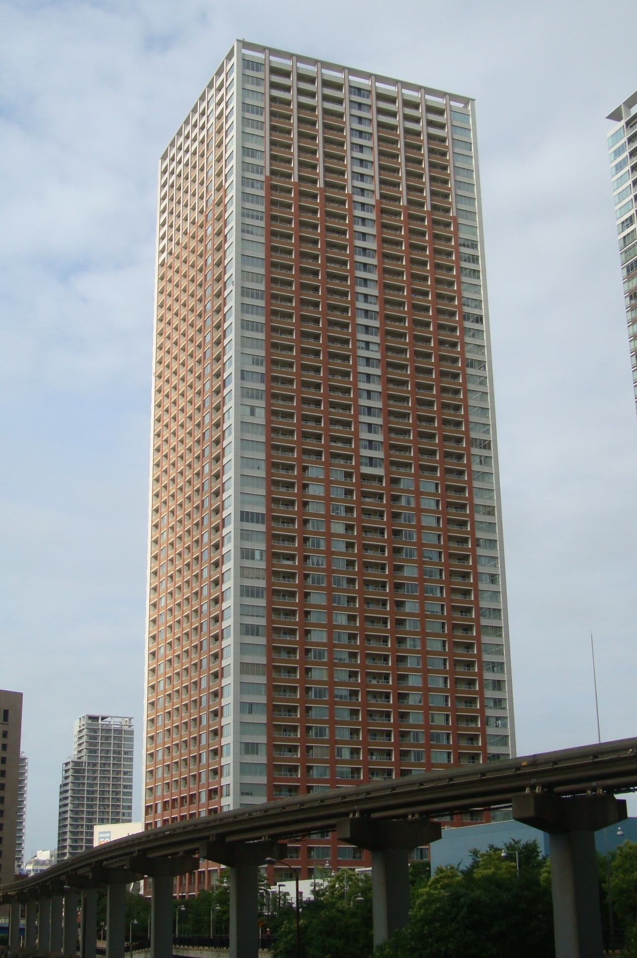 Grove Tower apartment building at the Shibaura Island complex in Shibaura, Tokyo